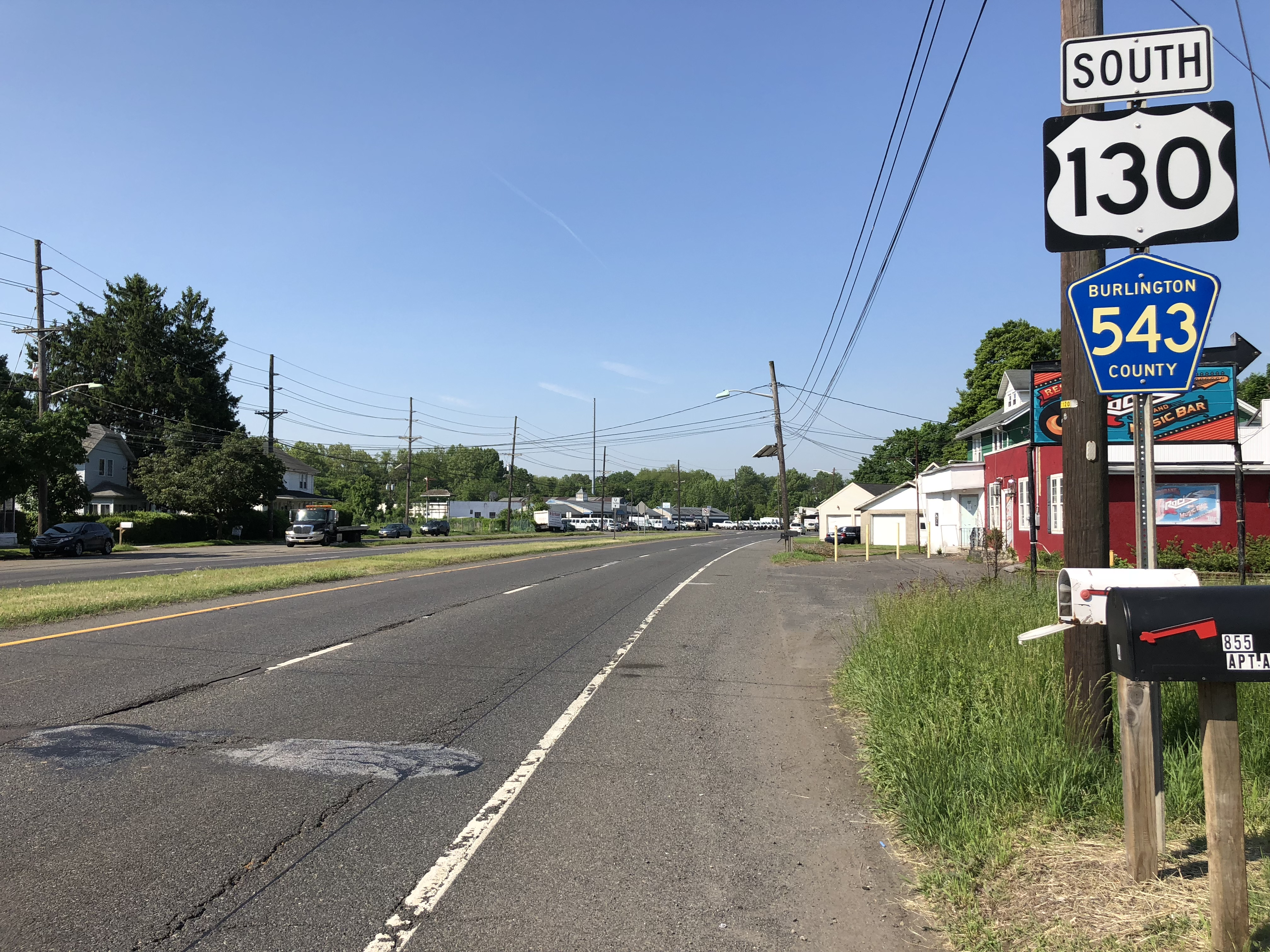 View south along U.S. Route 130 and Burlington County Route 543 just south of Burlington County Route 655 (Columbus Road) in Burlington, Burlington County, New Jersey